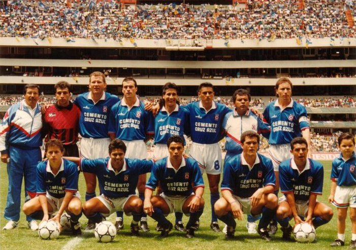 soccer